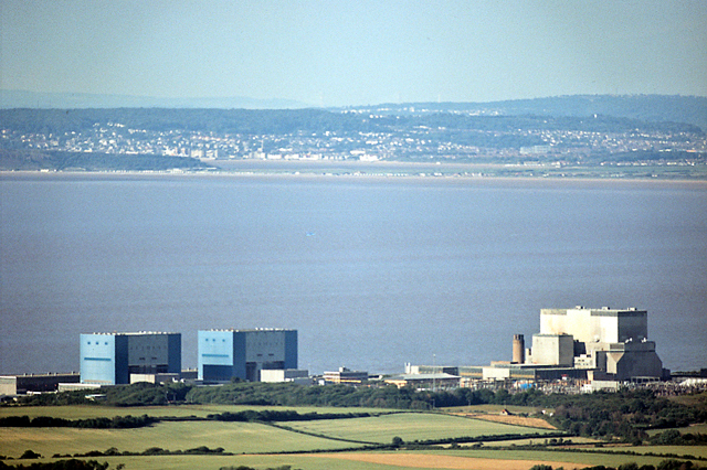 Hinkley Point Nuclear Power Stations (A left, B right) from the South West